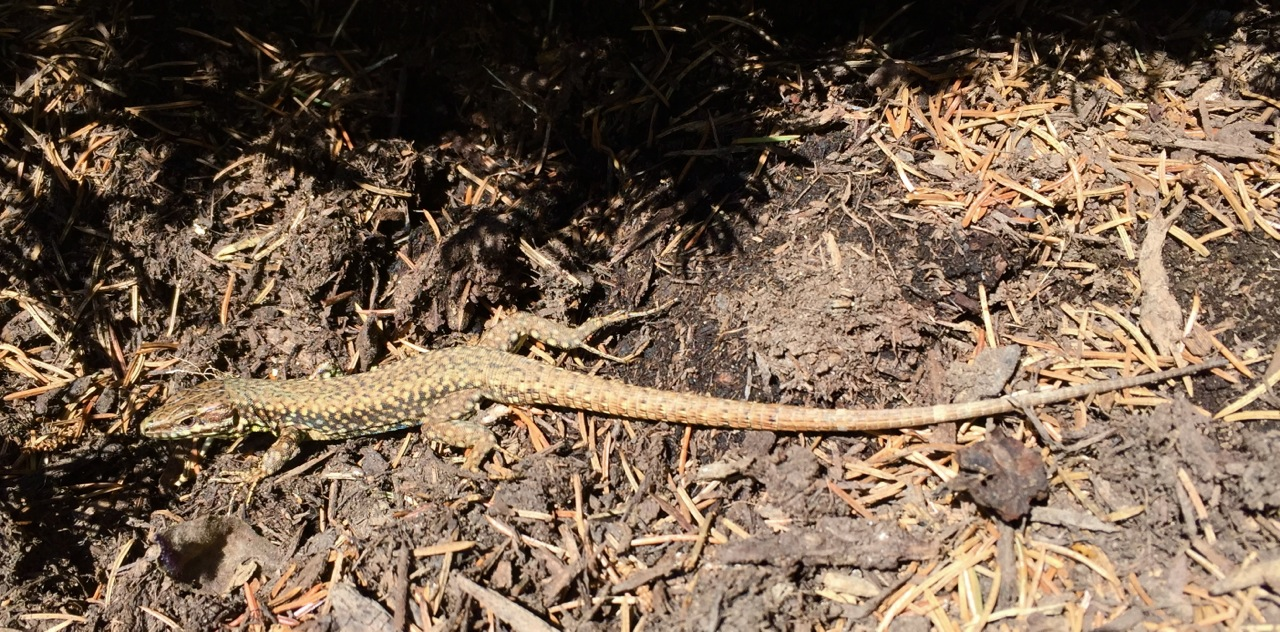 Common Wall Lizard - Podarcis muralis, Cincinnati, Ohio, USA 4 April 2015